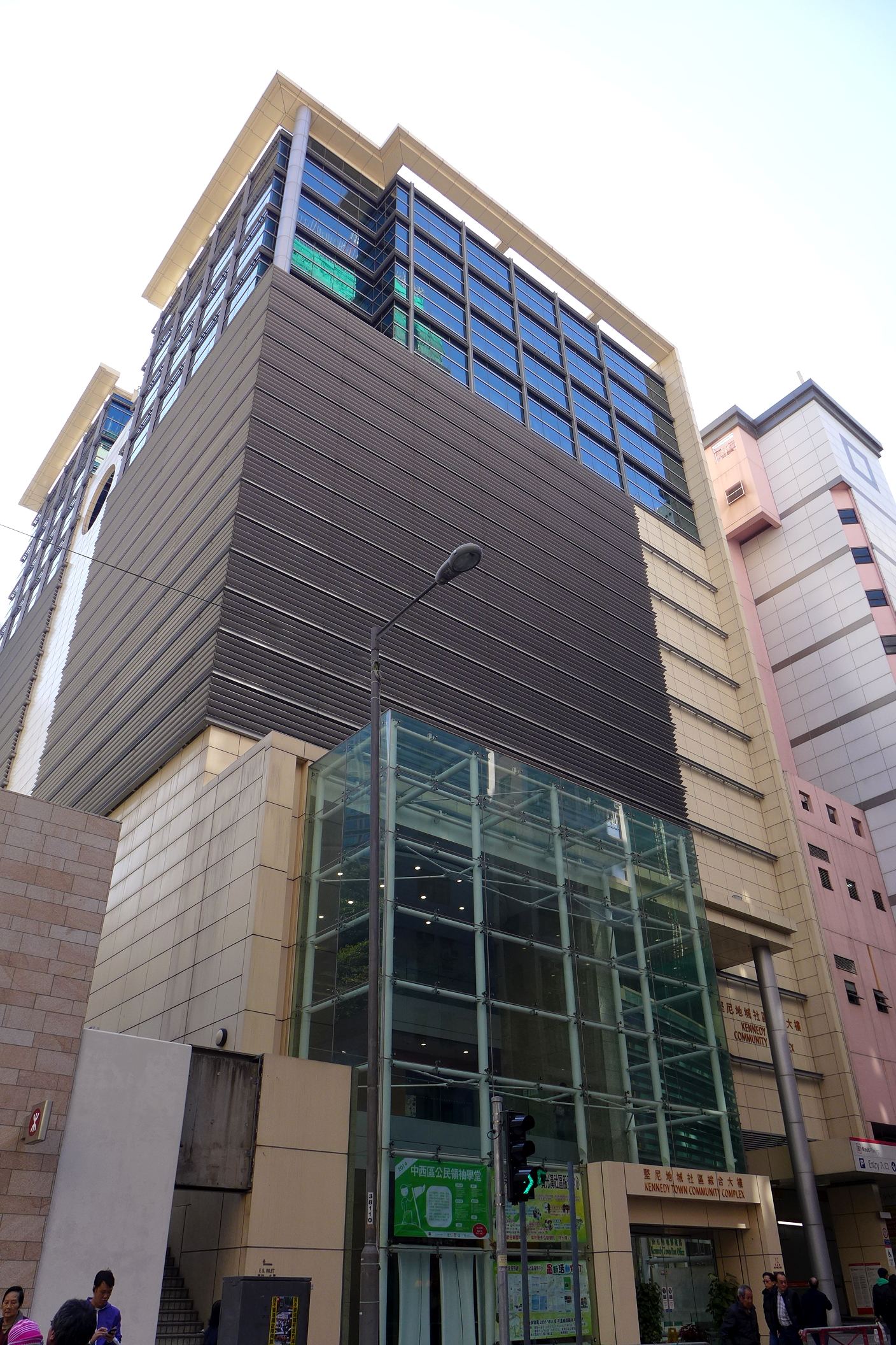 Kennedy Town Community Complex